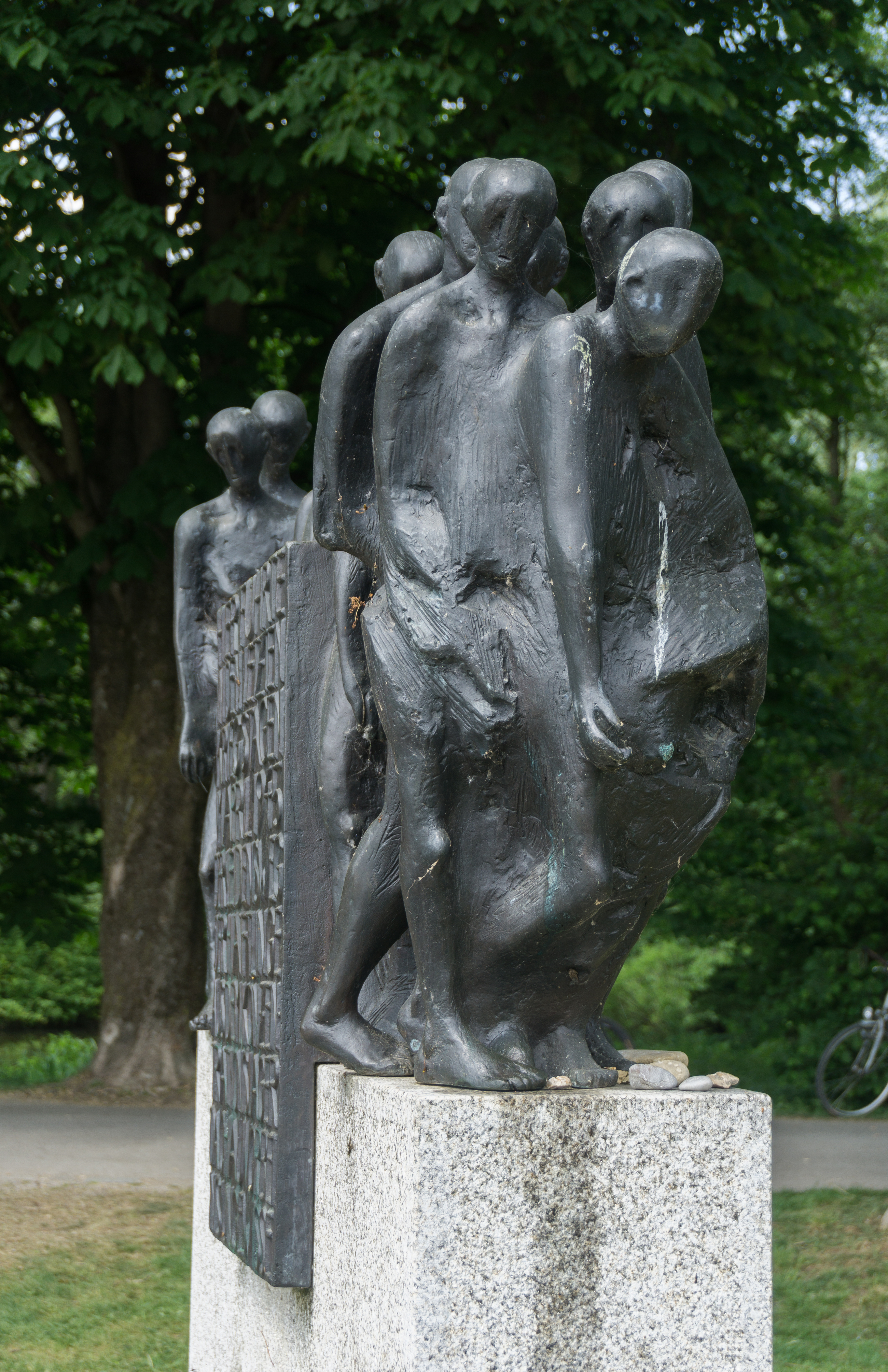 Jewish Memorial in Castle Blutenburg park in Munich, GermanyThis is a photograph of an architectural monument.